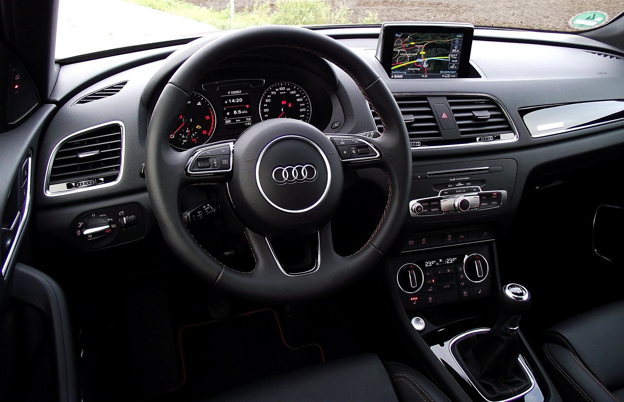 2015 Audi Q3 2.0 TDI quattro Facelift Type 8U Interior